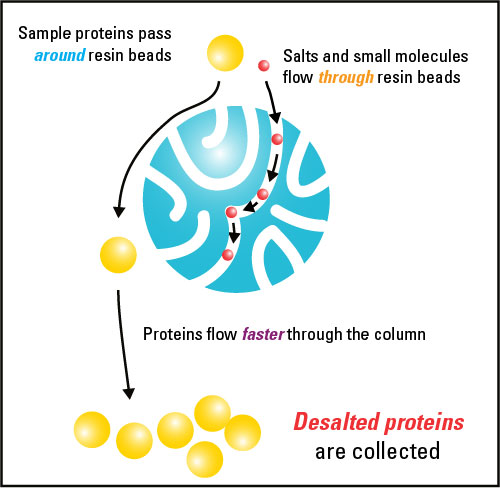 Salts and small molecules can be removed from protein samples by gel filtration chromatography. When added to the column, small molecules have to travel through the extensive pores of the resin beads, while large macromolecules like proteins can't fit and therefore travel around them. This allows the larger molecules to flow through the column at a faster rate than smaller molecules that have to traverse through the resin. Thus, the desalted proteins can be separated and collected.